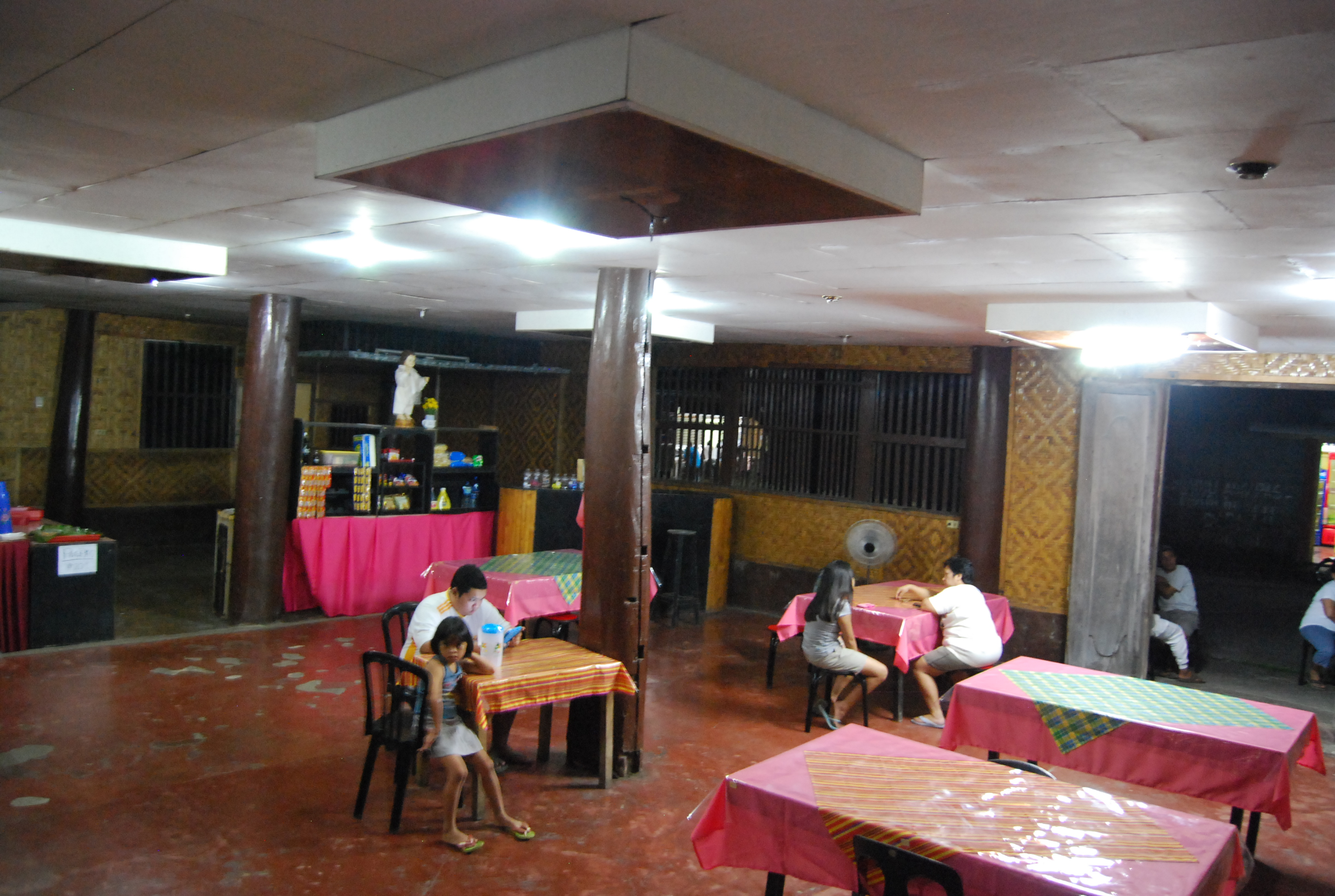 Vega Ancestral House Features, Details and Neighboring Heritage Houses